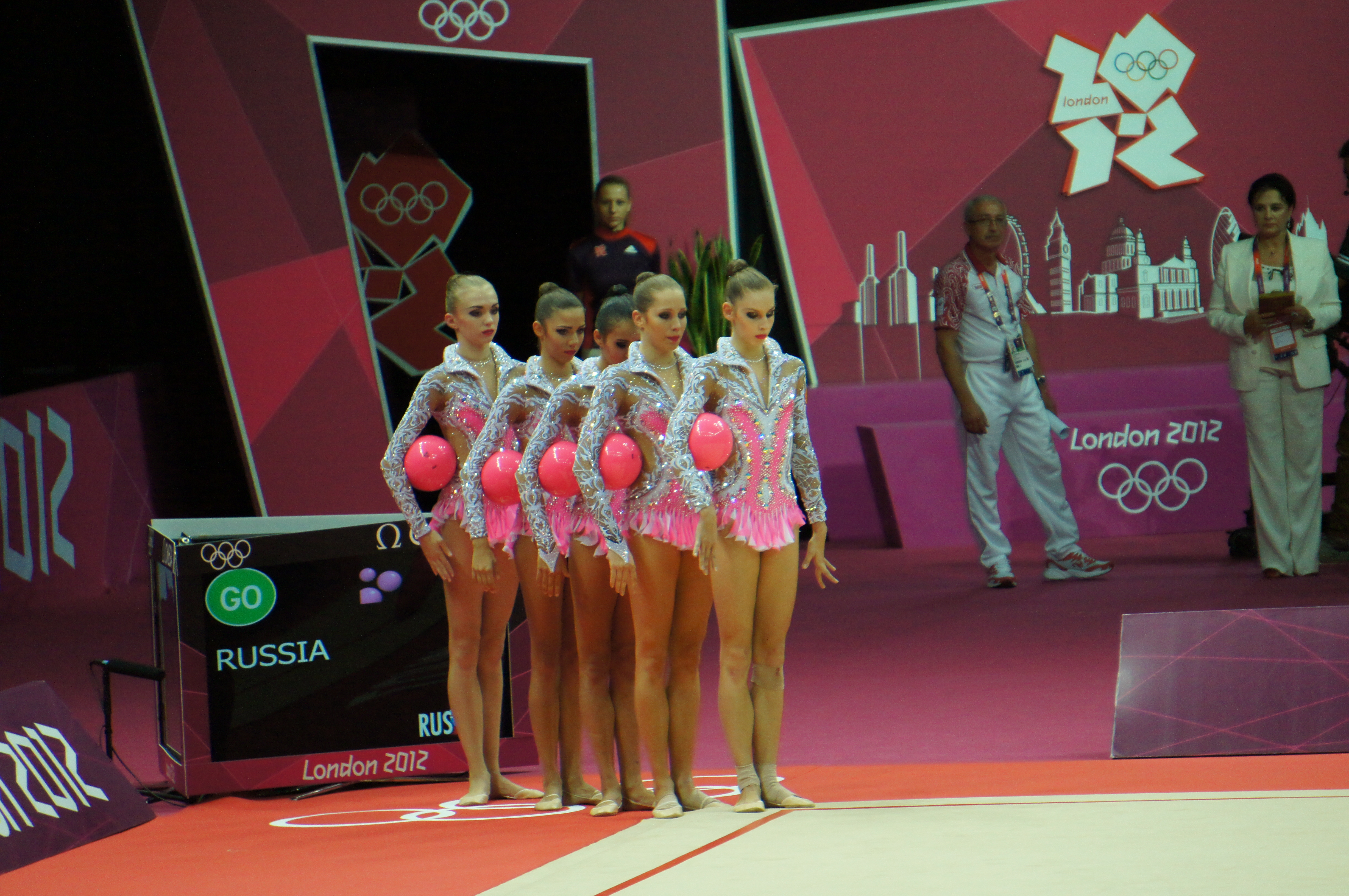 Russian rhythmic gymnastics team at the 2012 Summer Olympics